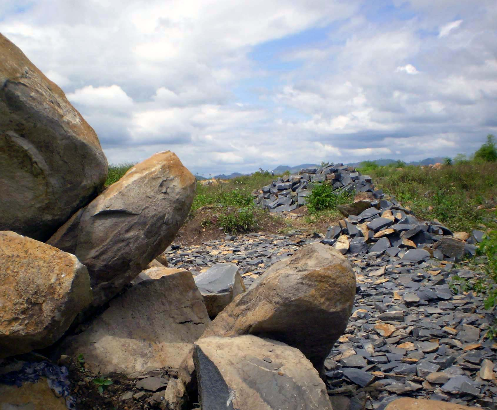 Mine of stone (quarry) Ea Hu